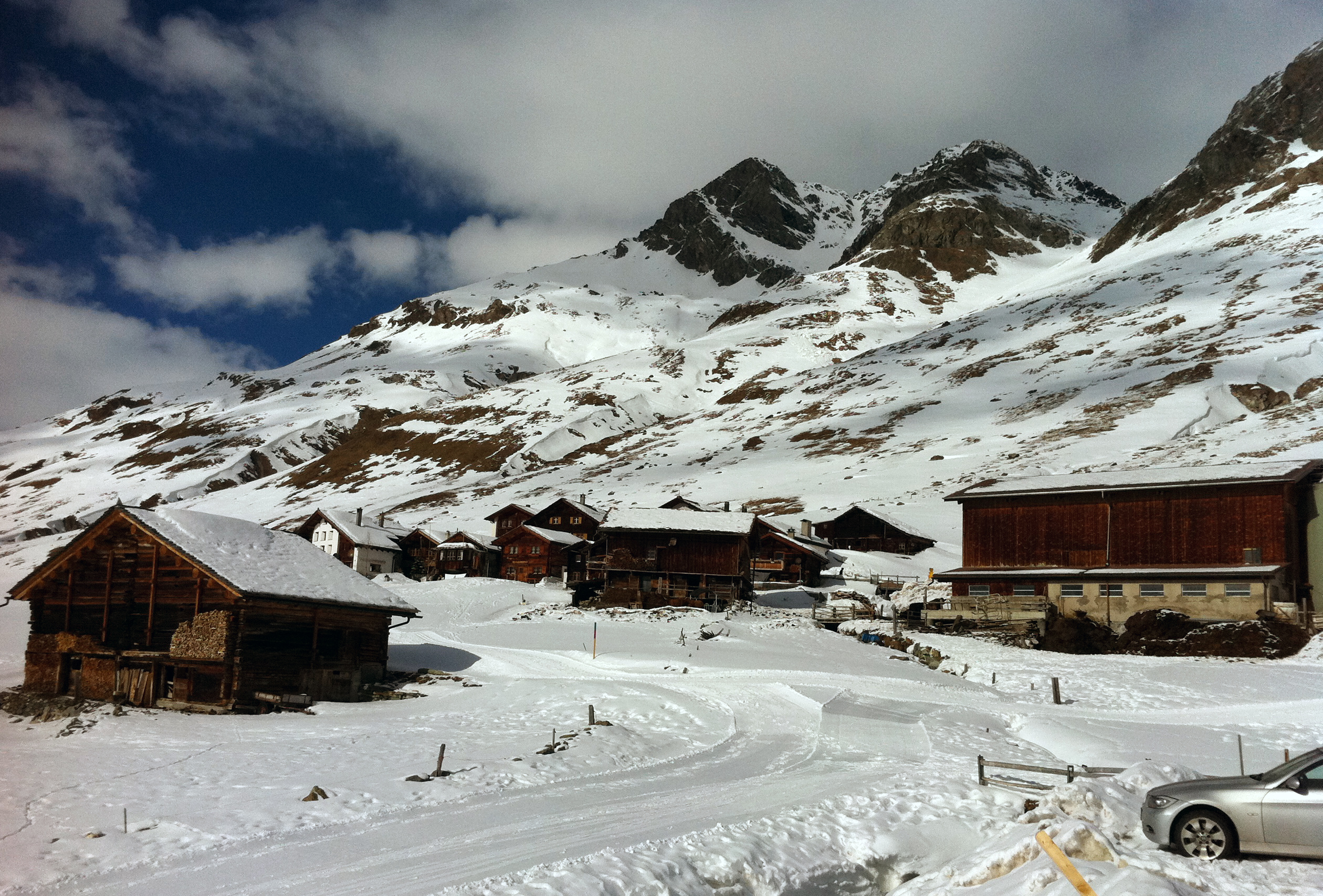 Juf, Graubünden